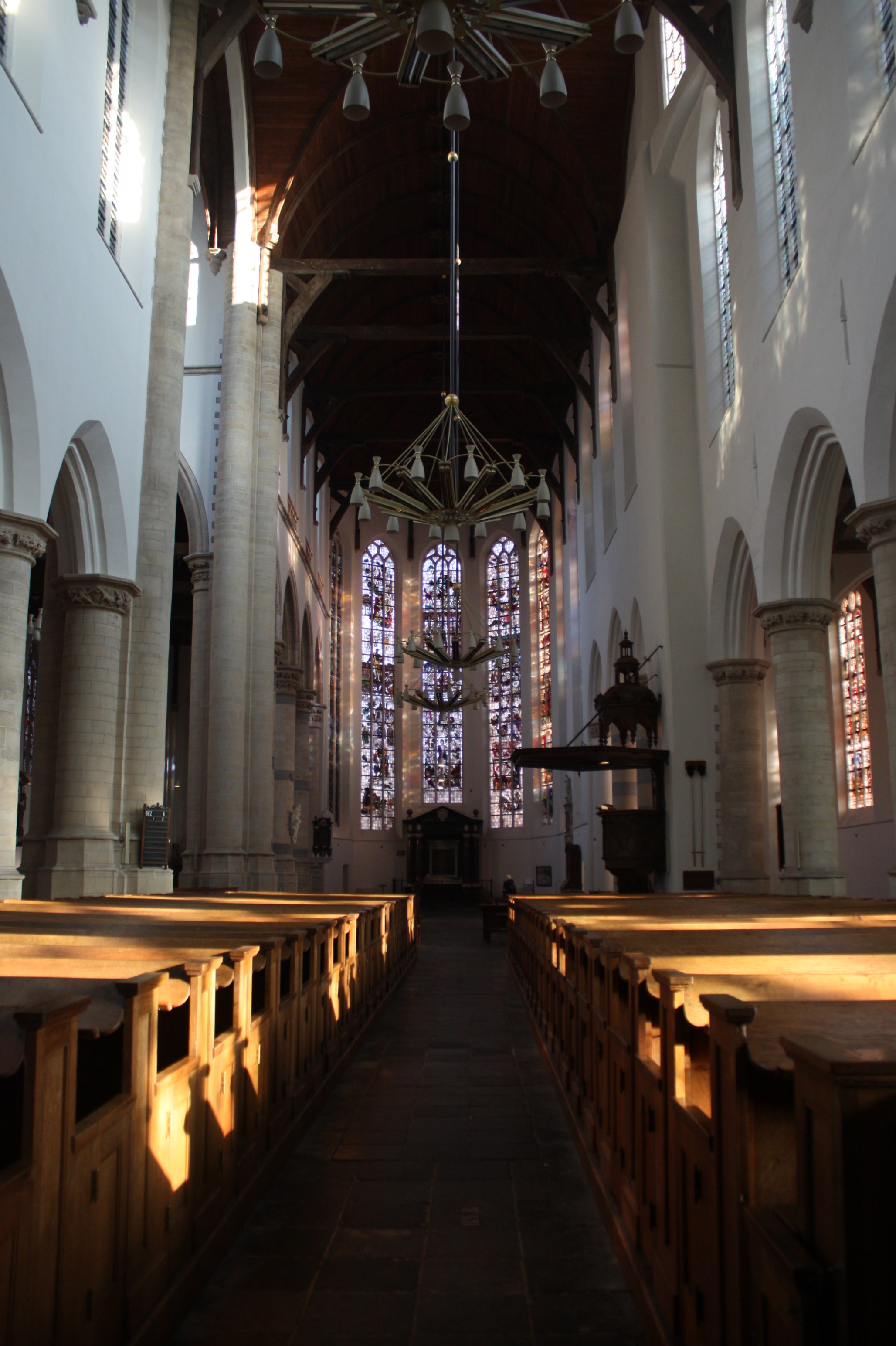 Delft, Oude Kerk (The Old Church)